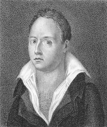 Italian opera singer Filippo Galli (1783-1853). Stipple engraving by Giovanni Antonio Sasso (18..-18..).